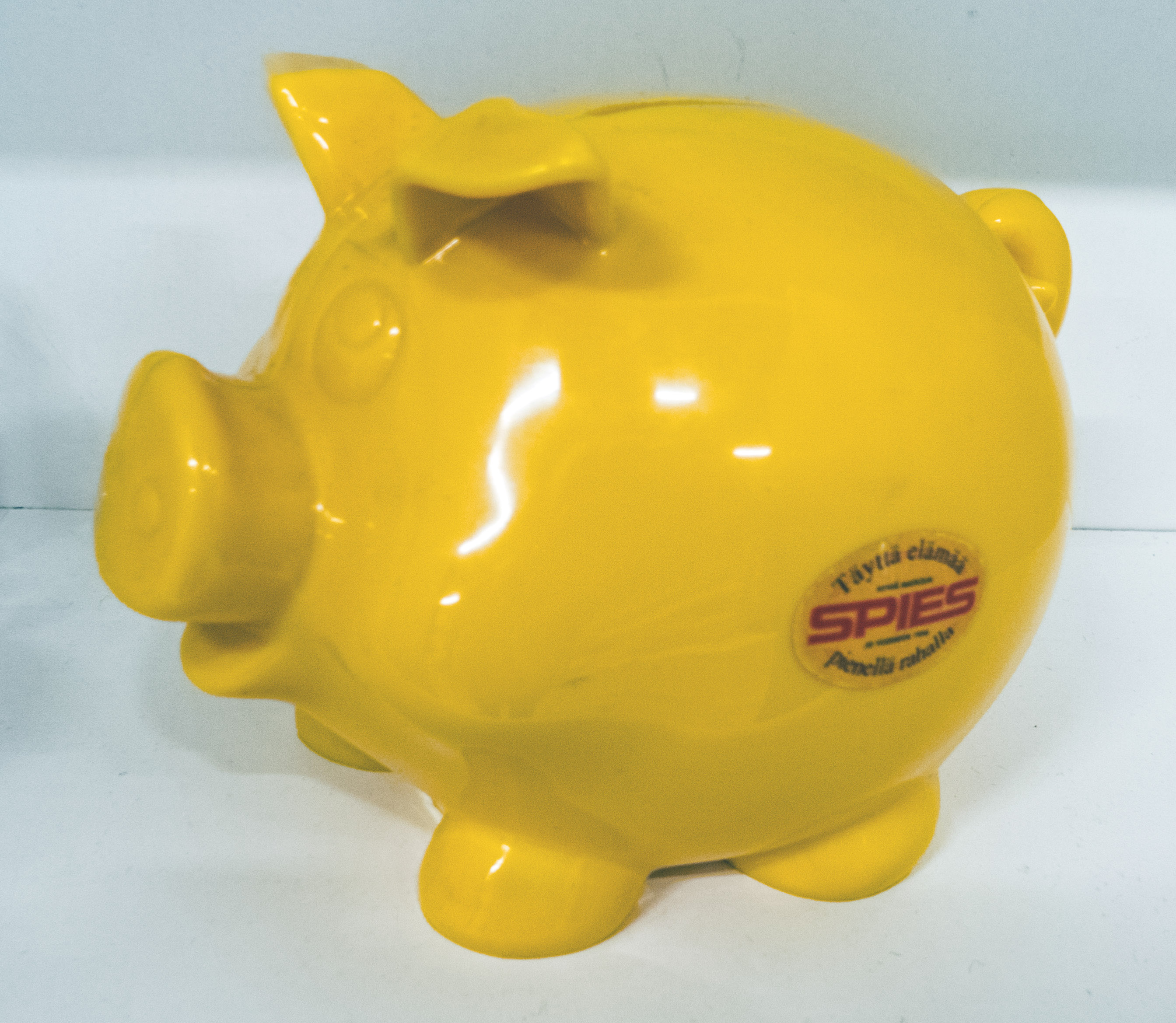 Specialty item advertising the now defunct Danish tour operator Spies, more precisely its Finnish branch.